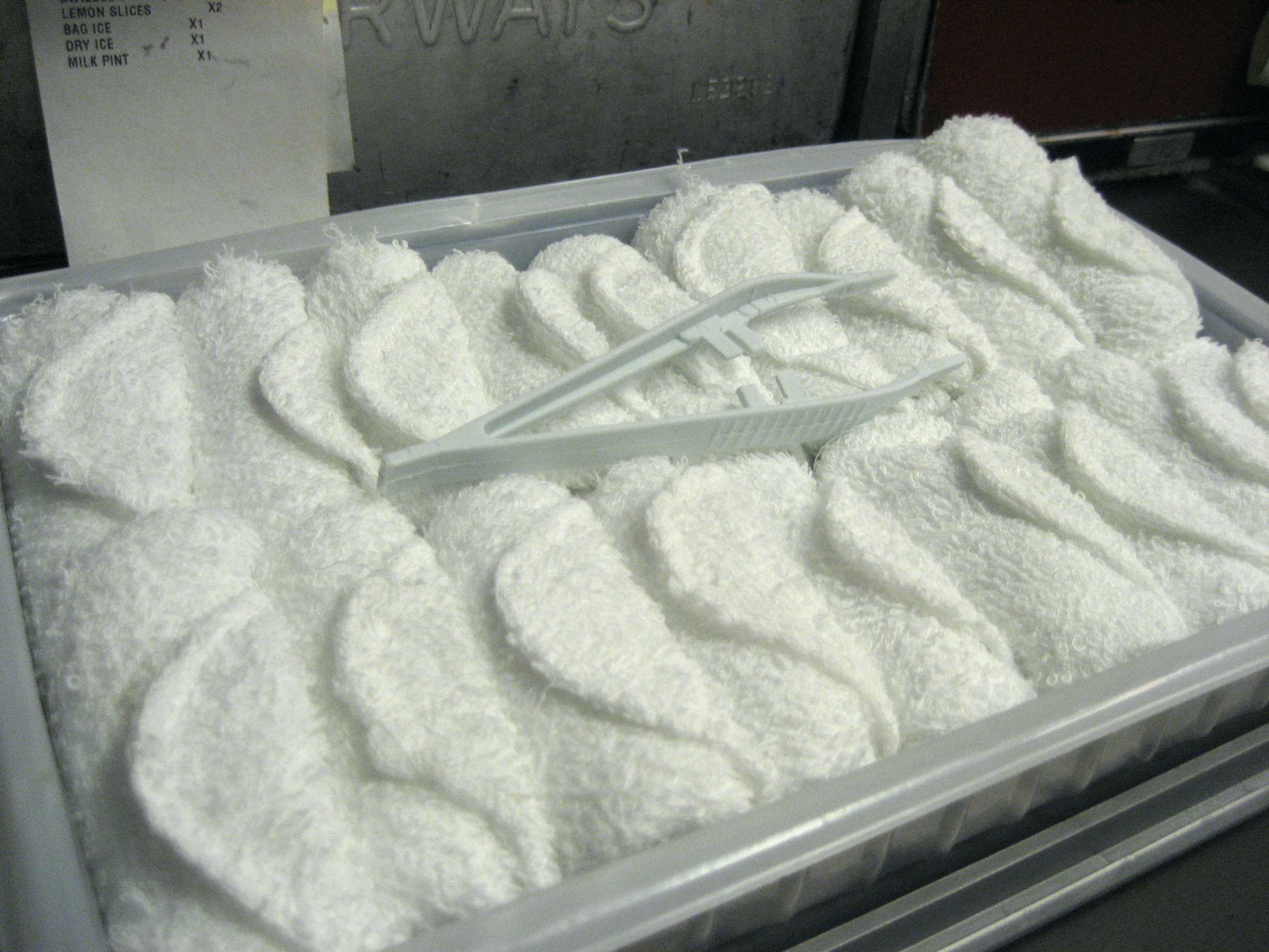 Hot Towels